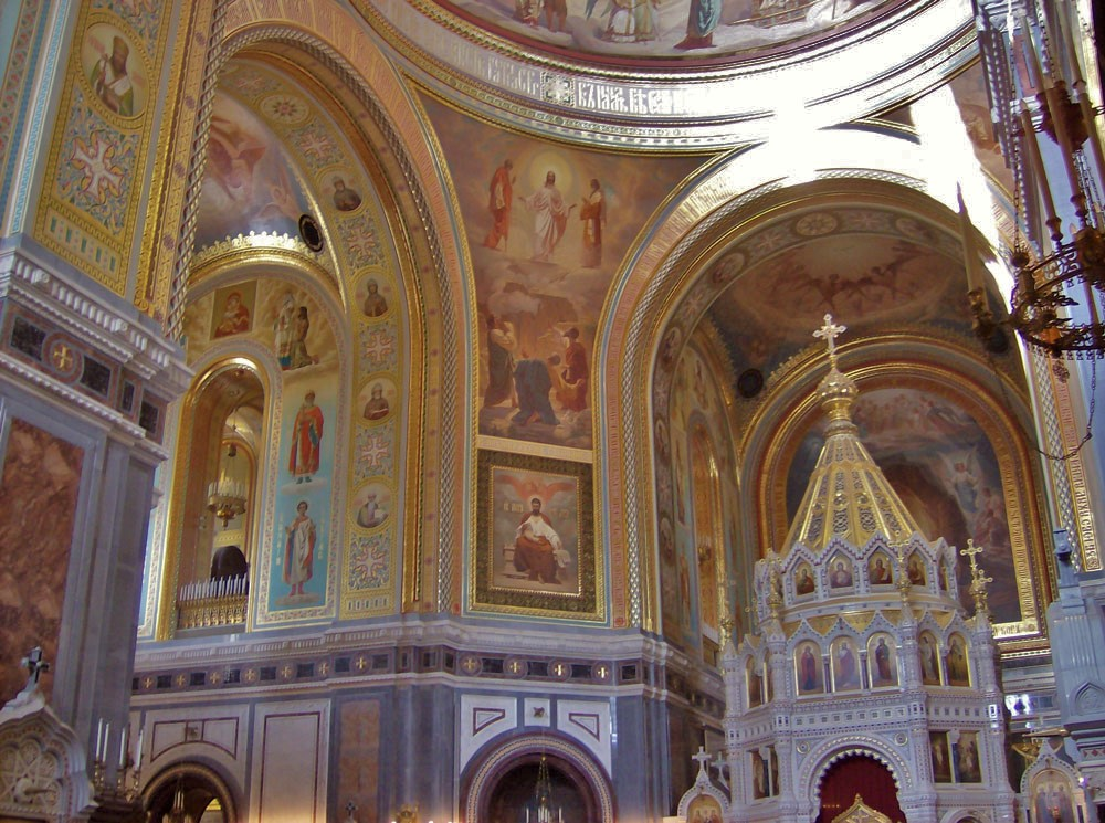 Christ the Saviour Cathedral